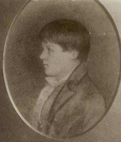 A portrait from the Welsh Portrait Collection at the National Library of Wales. Depicted person: Aneurin Owen – Welsh historical scholar